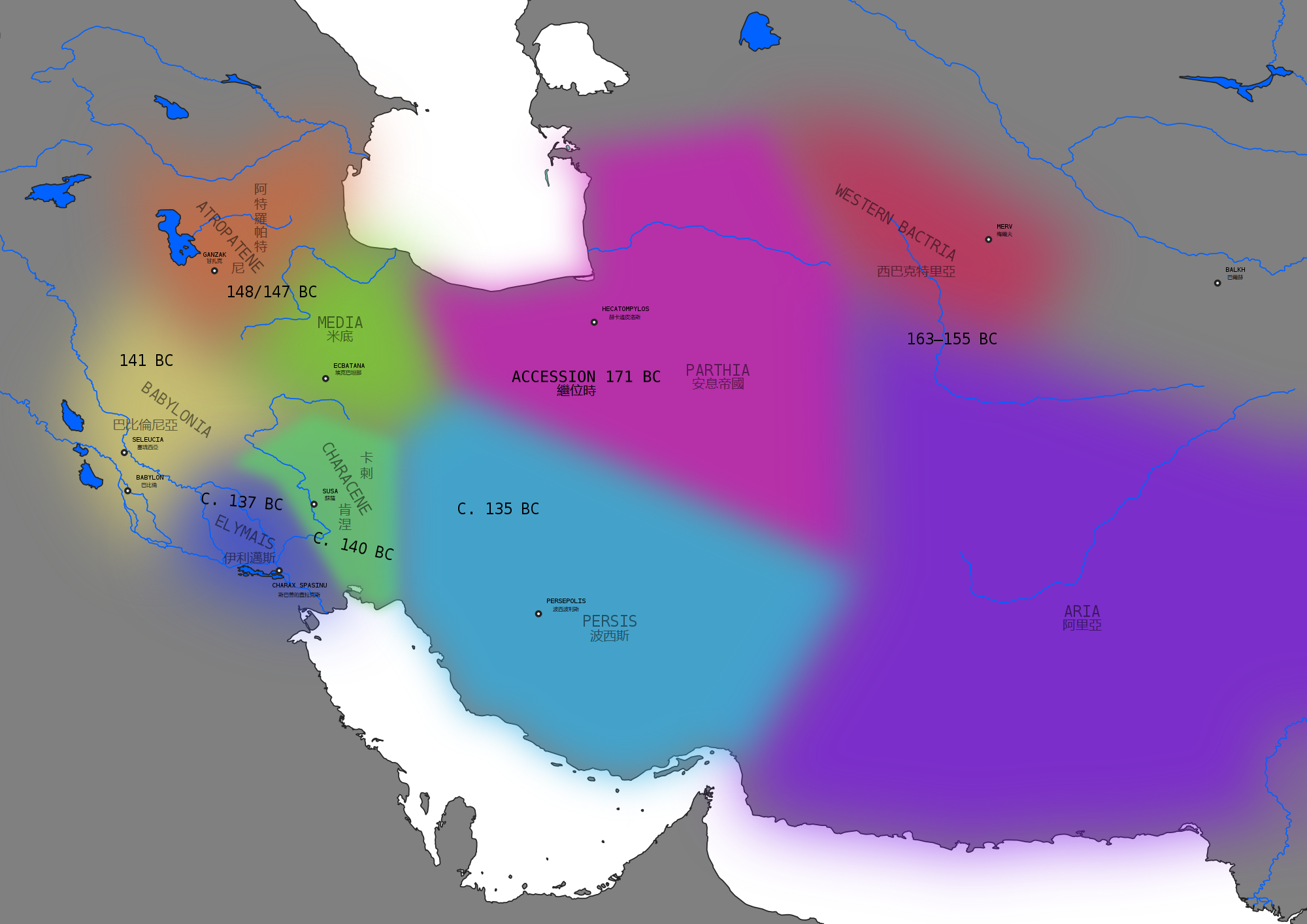 Map showing the conquest of Mithridates I, with both English and Traditional Chinese